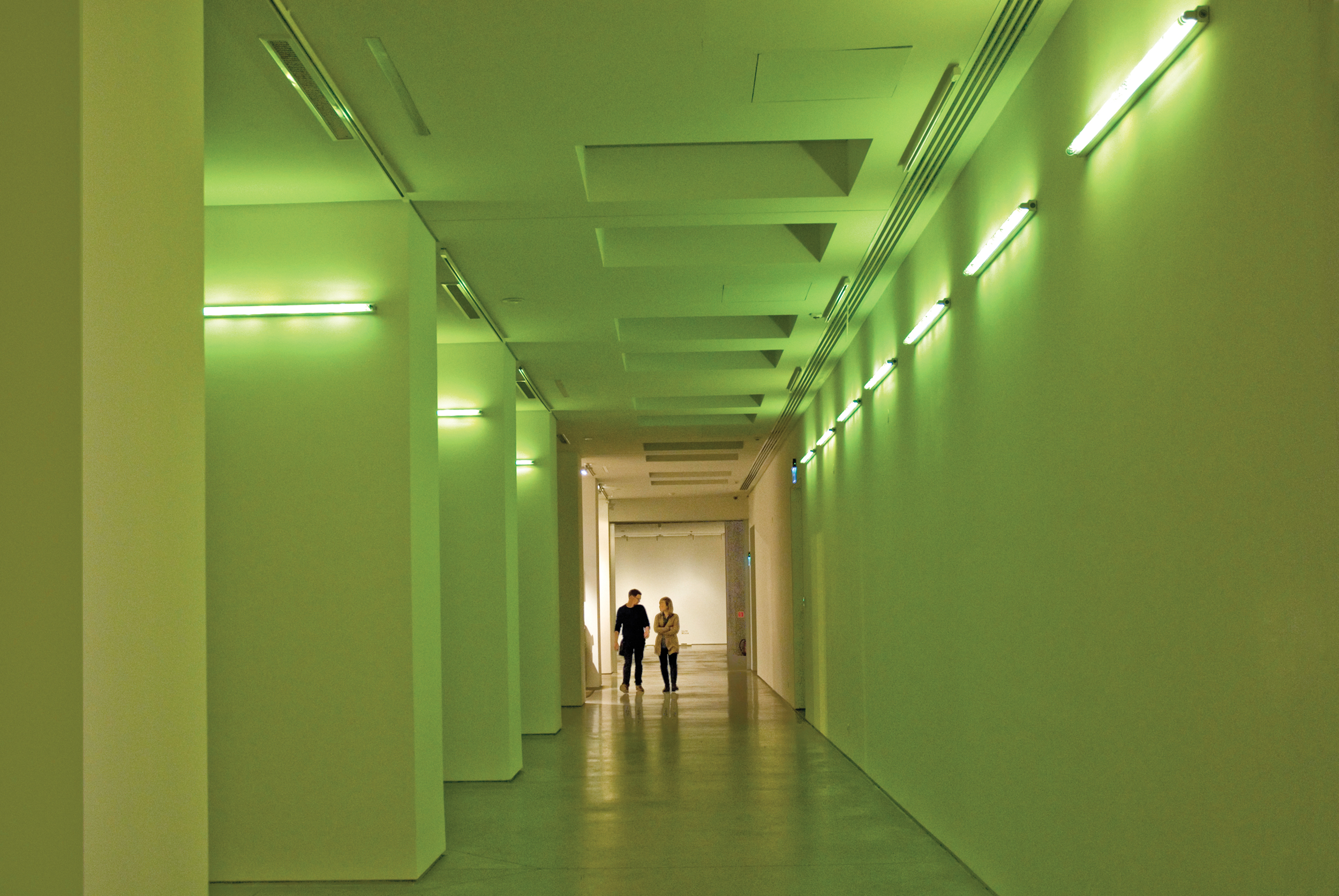 Light art installation. Industrial fluorescent lamps were covered with lampshades — photographs of exotic plants mounted in glass pipes. Ten lamps were installed in a gallery space. Lamps can be exhibited as single objects. "Lampshades for neon Lamps" is a work from 2005, presented as installation in Museum of Modern Art — MOCAK in Kraków in 2014, as a part of the exhibition "Installation or Object". Dimensions of a singe lamp — 120/6cm, edition 50.